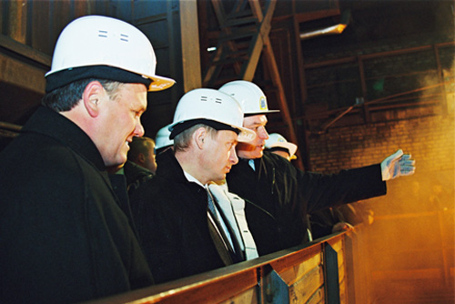 MAGNITOGORSK. President Vladimir Putin at a blast-furnace shop of the Magnitogorsk Iron and Steel Works (MMK).